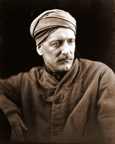 William Gifford Palgrave (1868) albumen print 34.0 x 25.9 cm.